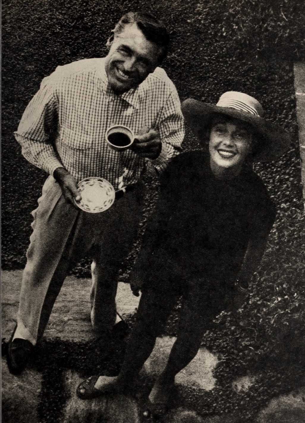 Cary Grant and Betsy Drake, 1959